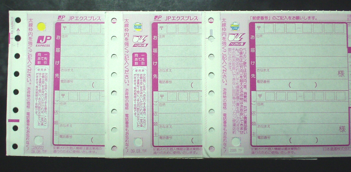 A change of Pelican labels from 2008 to 2009